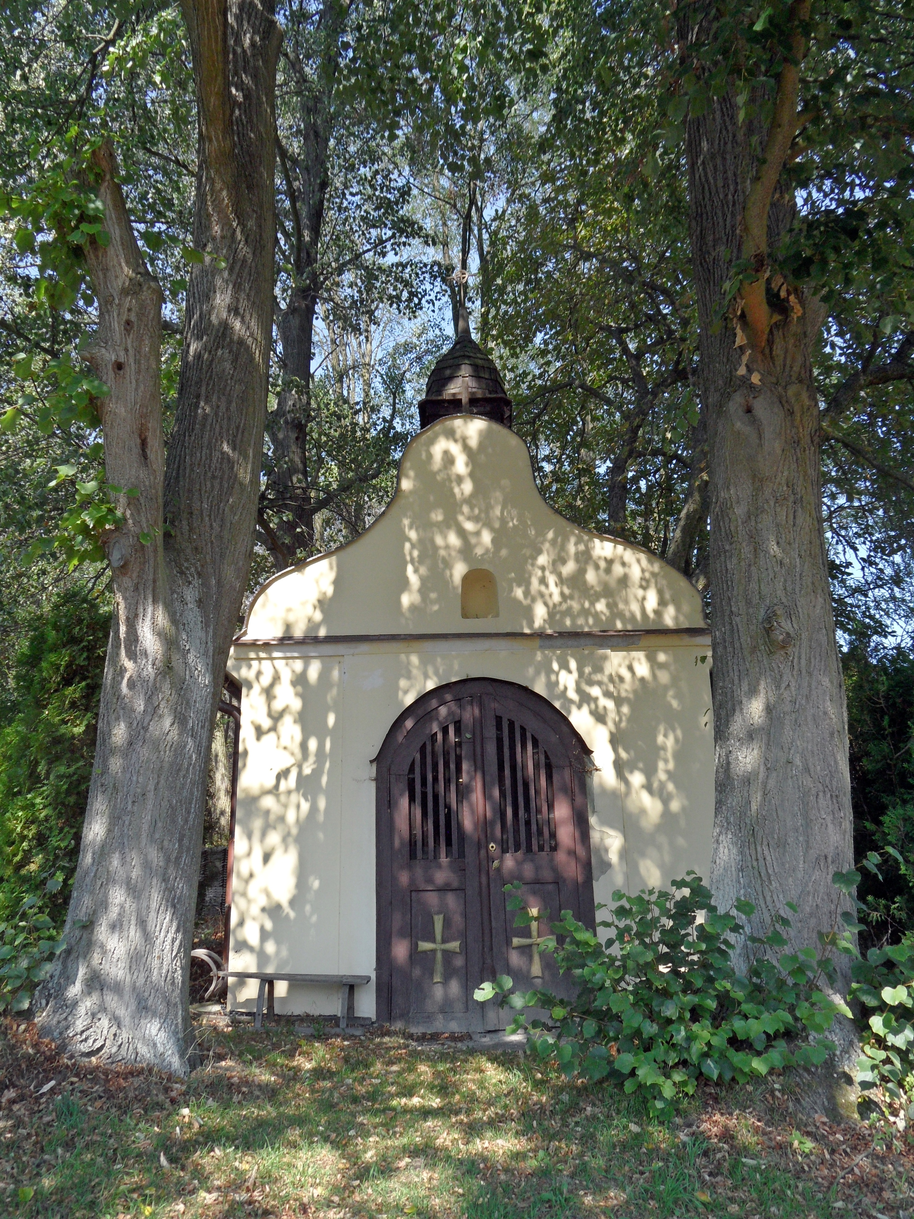 Hološiny H. Chapel in the Centre of the Village. Kutná Hora District, the Czech Republic.